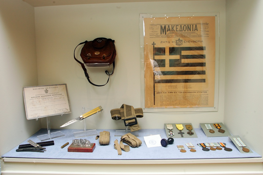 Military equipment from the Balkan Wars and an issue of the newspaper MAKEDONIA